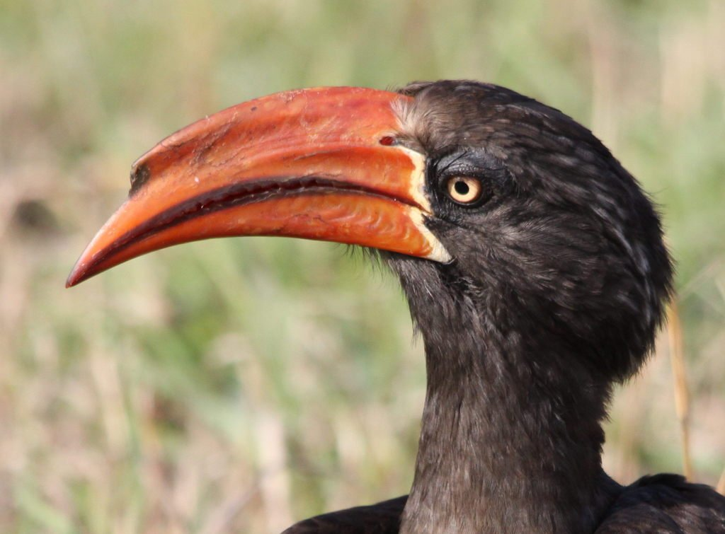 A Crowned Hornbill at Hluhluwe-Umfolozi Game Reserve, South Africa.